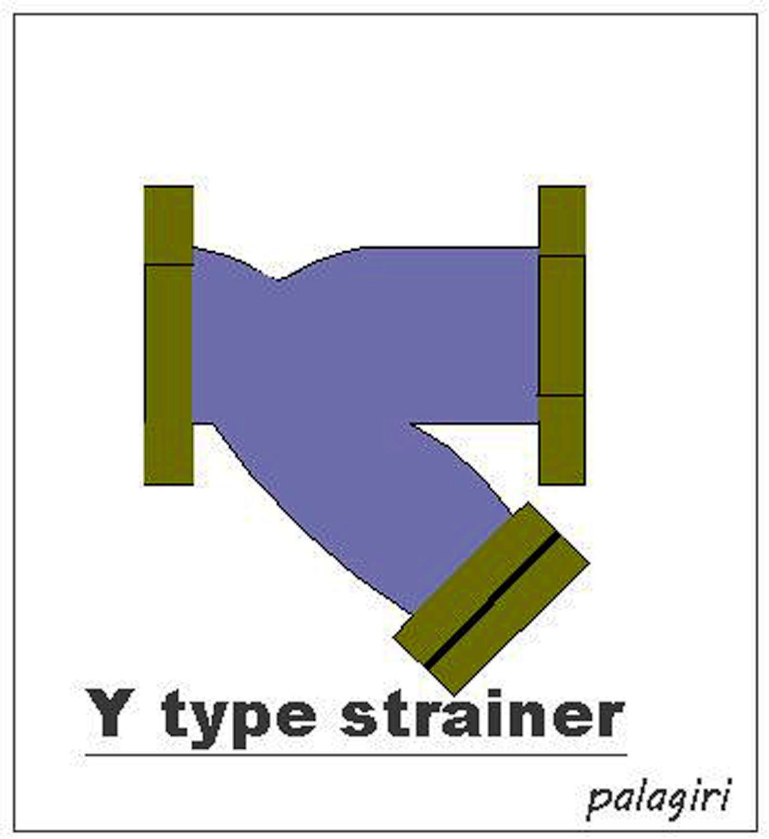 Y type strainer